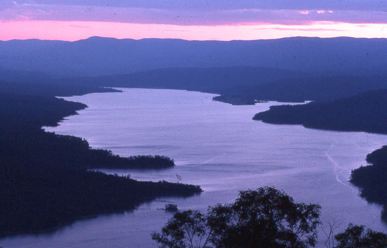 Lake Burragorang, dusk, Blue Mts, NSW, Australia (Kodachrome slide scanned on)